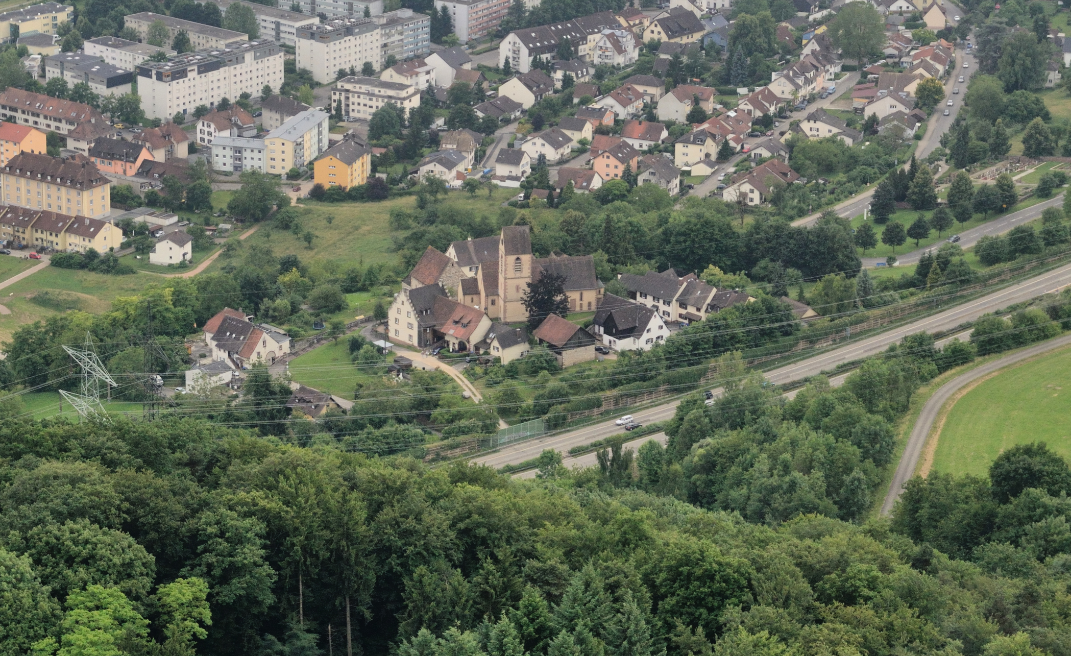 Lörrach: aerial view of Rötteln